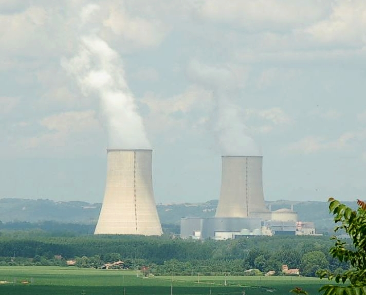 Golfech nuclear power plant